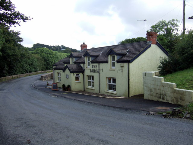 The Bridge, and the bridge at Coxlake Old inn and old bridge (currently under repair) on the road between Narberth and Robeston Wathen. The watercourse is not named on the map but is likely to be a tributary of the Eastern Cleddau.